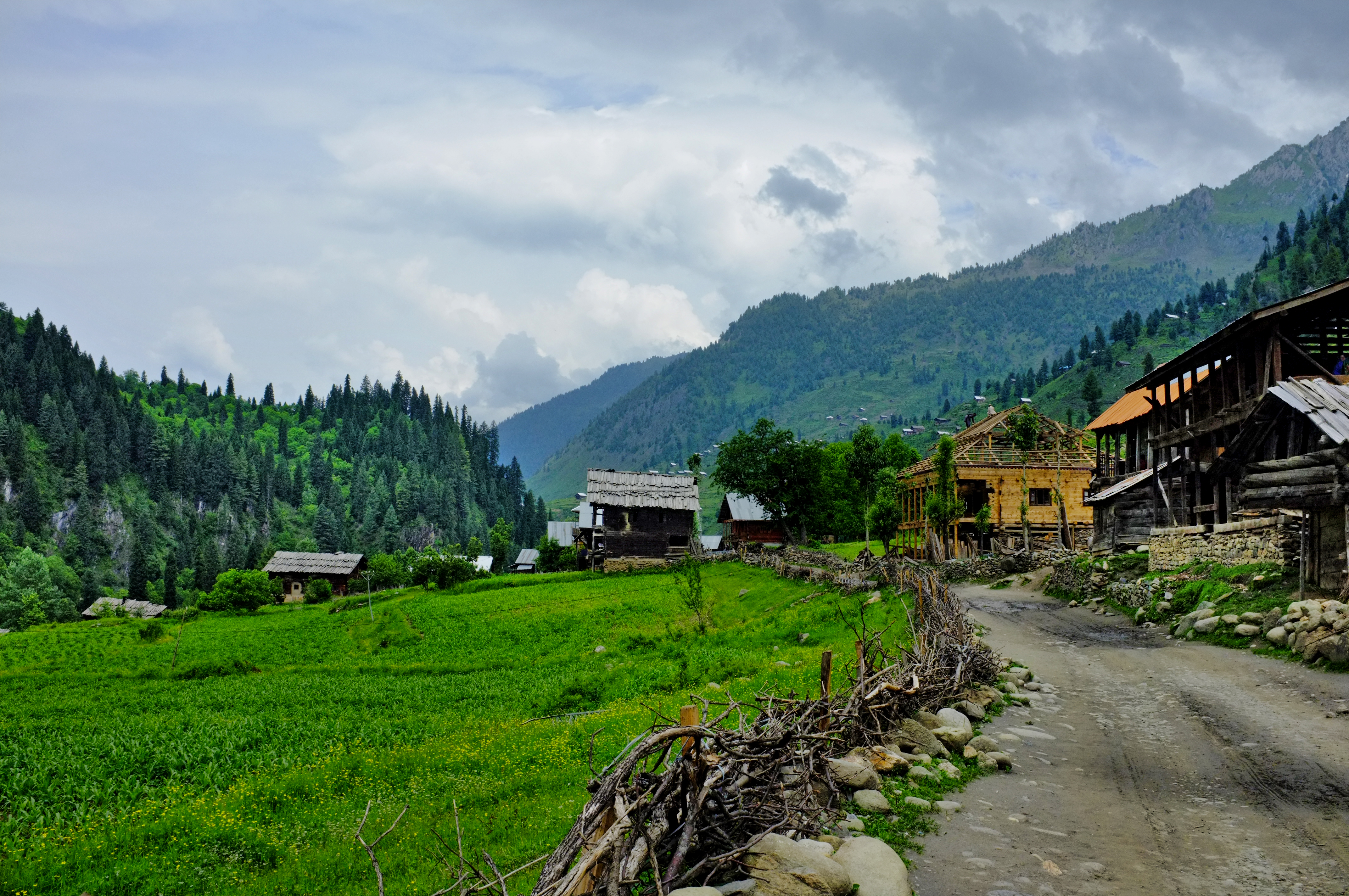 I took this photo last summer wile crossing the sleepy but a garrison village of Halmat.